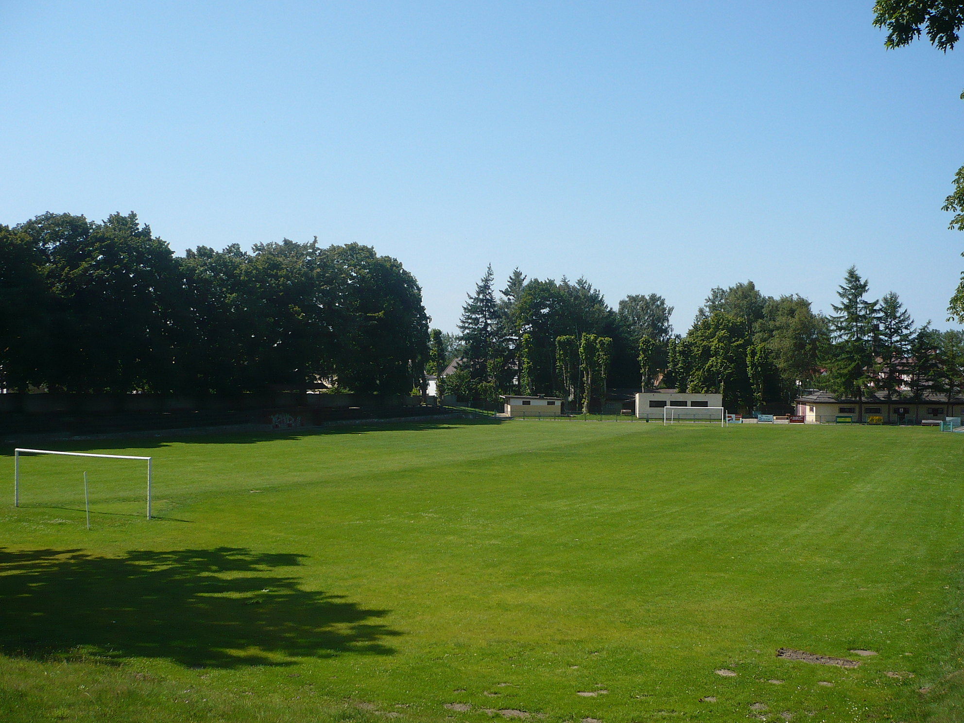 Football pitch of MKS Sparta Gryfice, Poland